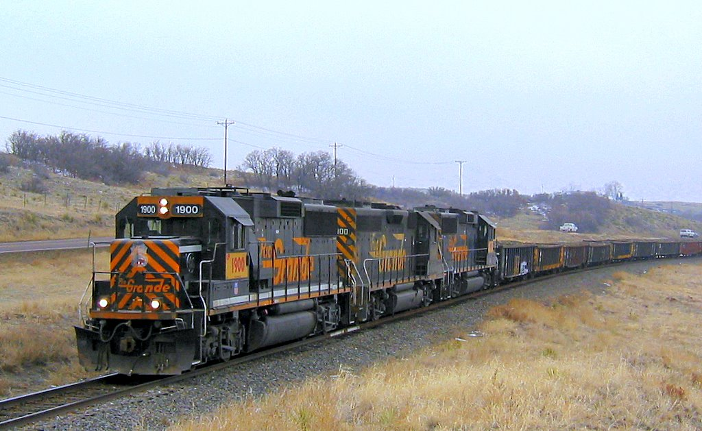 2003, we went to Colorado skiing and a tip from the webmaster of let me know of this local down on the joint line. We are south of Littleton near Castle Rock as the local heads back to Denver. This is the last time I saw solid Rio Grande power, I miss it.